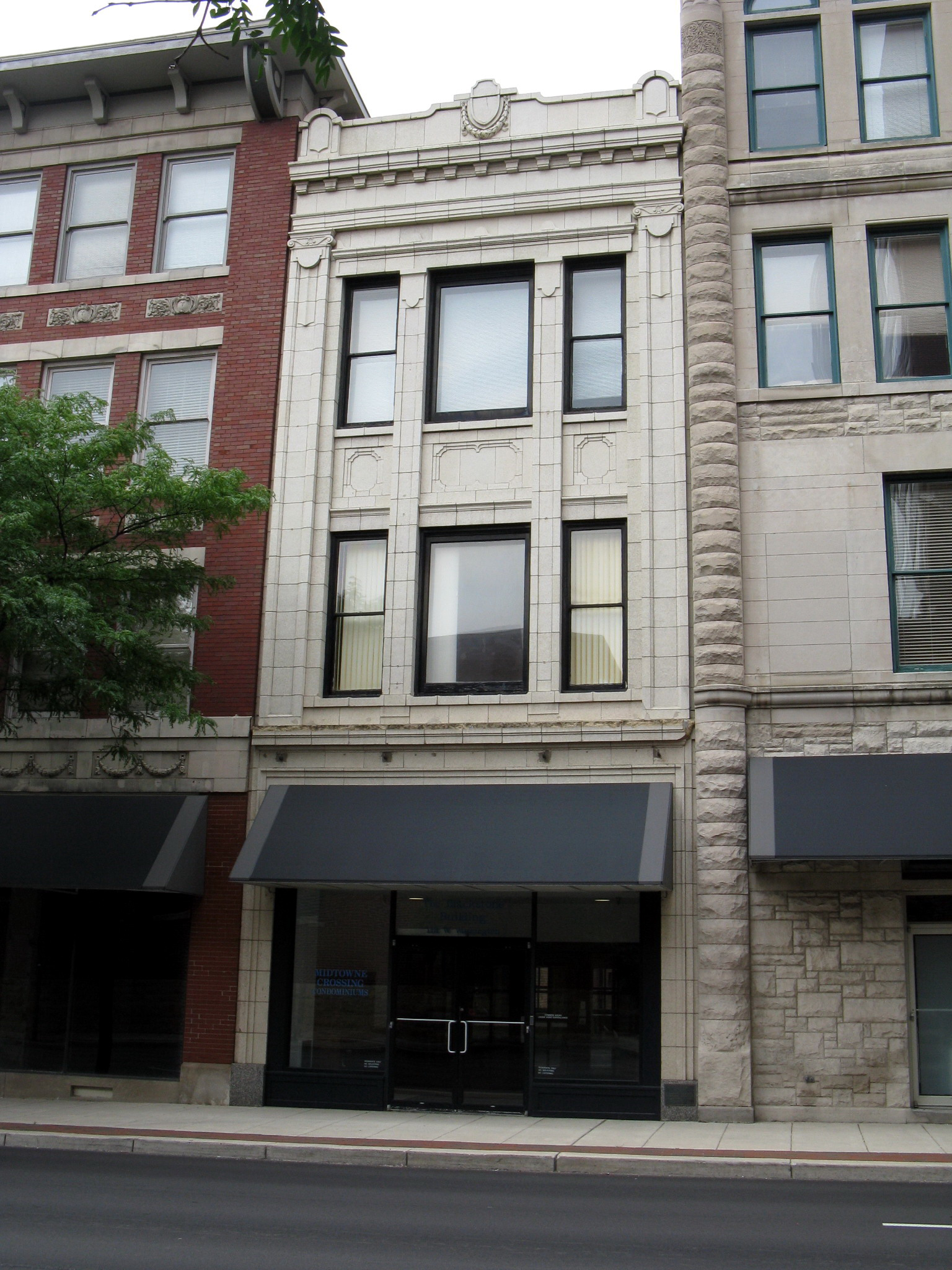 The National Register-listed Blackstone Building at 112 W. Washington in downtown Fort Wayne, Indiana.